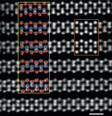 HAADF-STEM image of 1T′-MoTe2 along the [100] zone (scale bar, 0.5 nm). The red rectangle shows HAADF simulated image, and the red and blue spheres in the yellow rectangle represent Te and Mo atoms, respectively